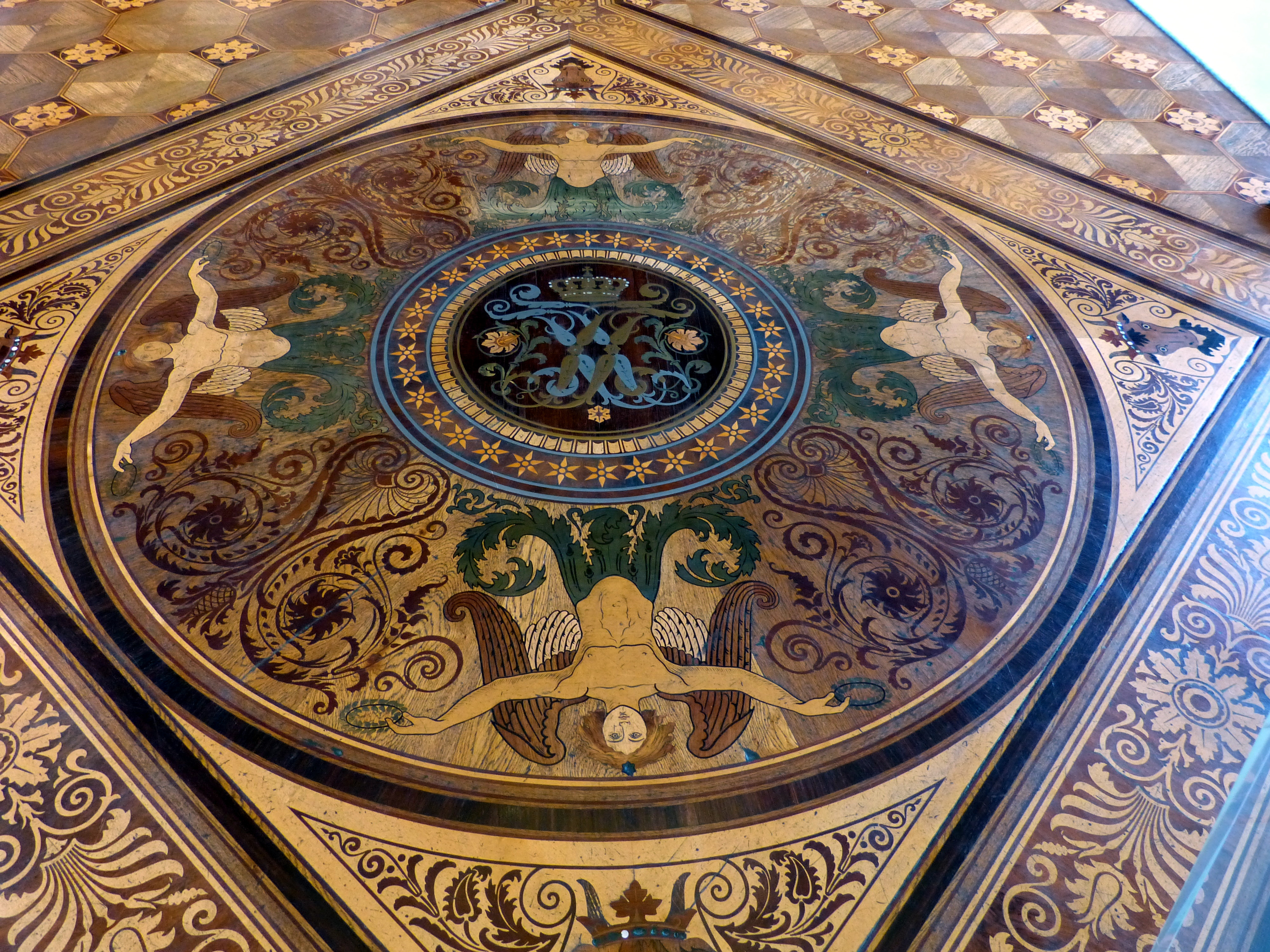 Schwerin Castle ( Mecklenburg ). Throne room ( 1856-58 ) by F.A.Stüler - Parquetry in marquetry technique by Peters workshop.